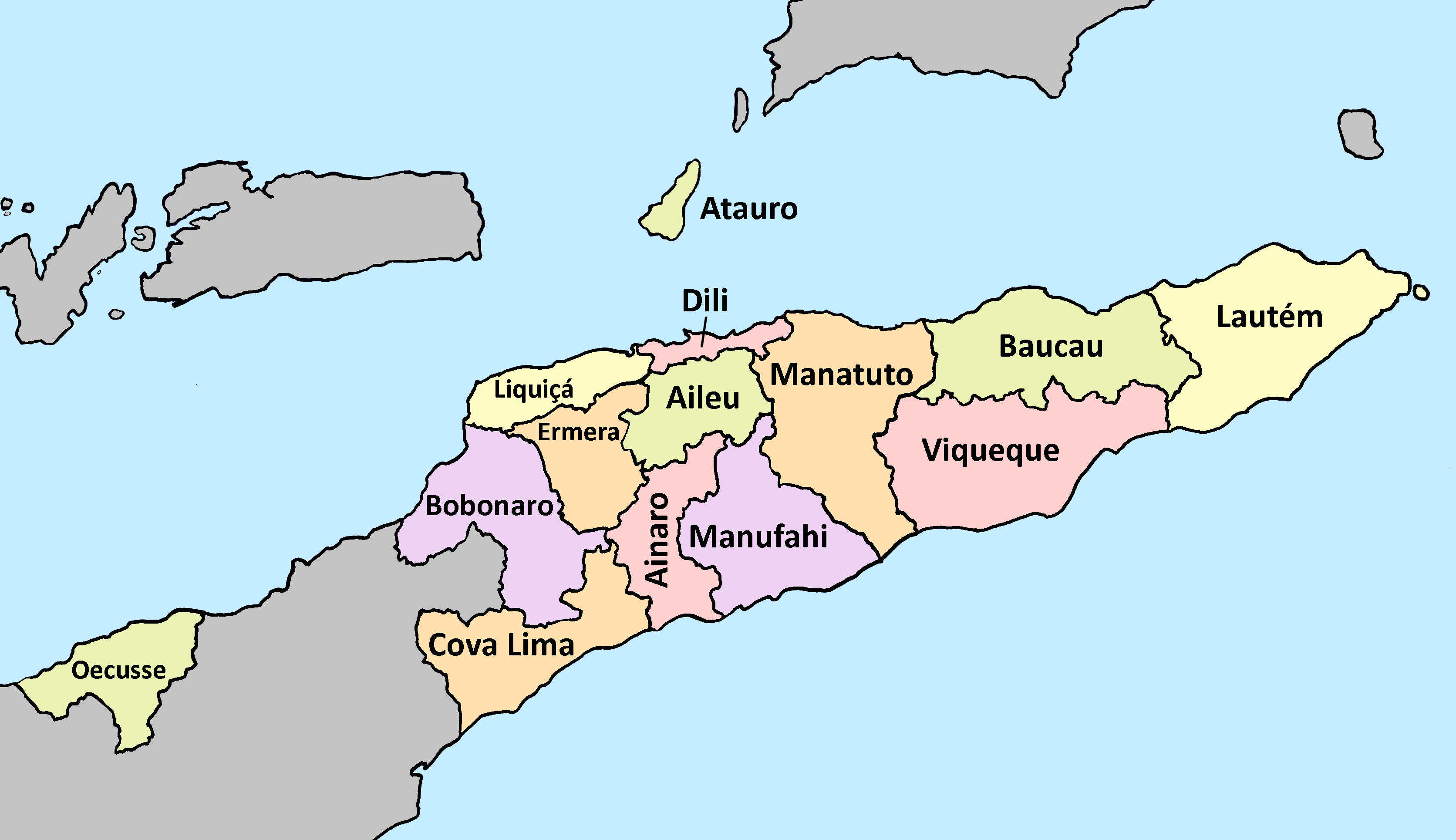 The thirteen municipalities of Timor-Leste (East Timor)